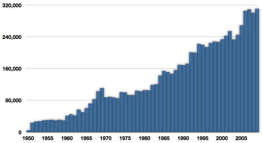 Fisheries recorded capture of Rastrelliger brachysoma from 1950 to 2009. Data source FAO fisheries